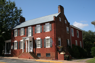 Holladay House, now operating as a Virginia Bed and Breakfast in Orange, Virginia. Taken from the South side of West Main Street in 2007. The house is one of the most historic structures on West Main Street in Orange, dating to ca. 1830.